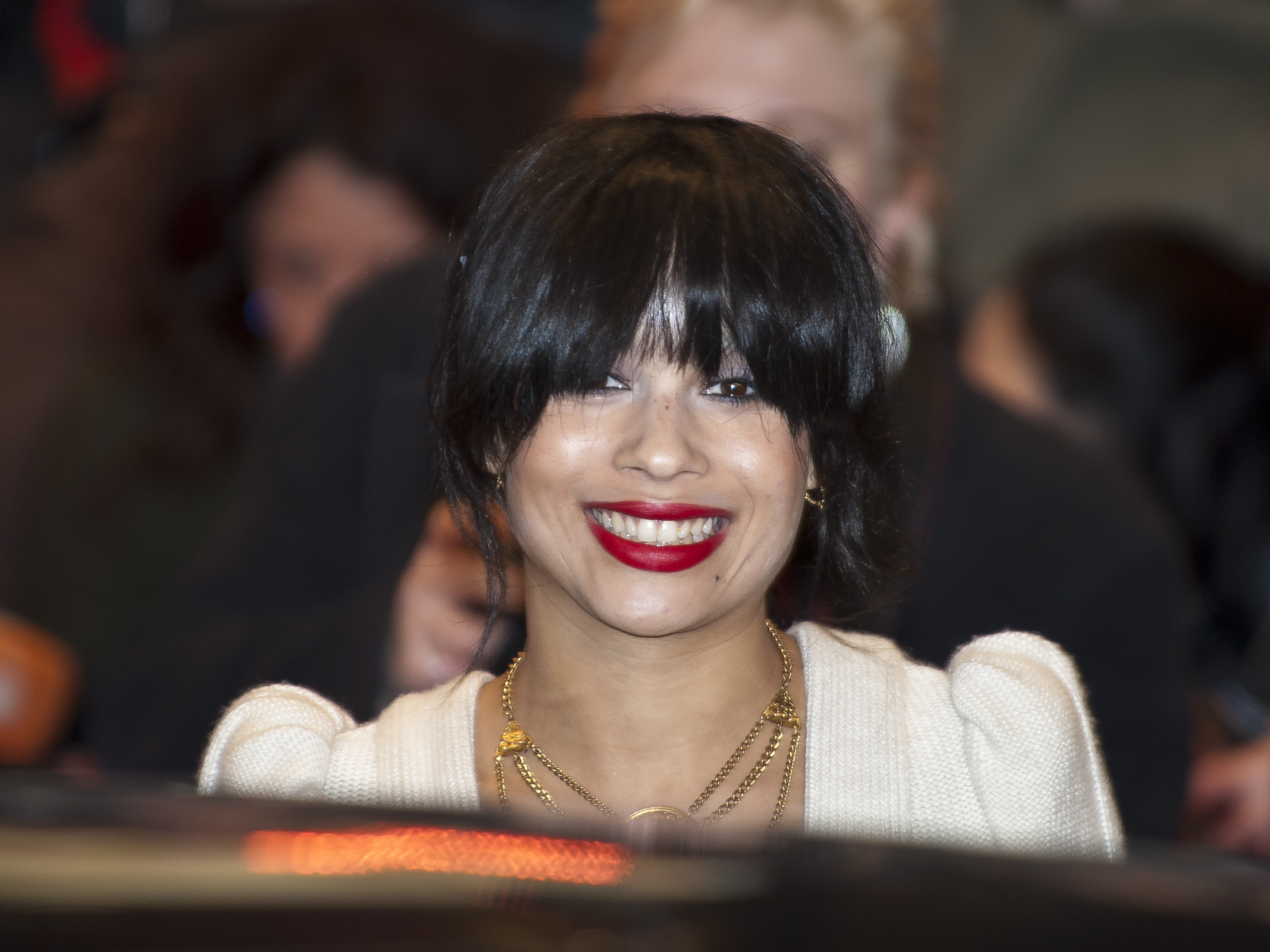 Actress Zoë Kravitz at the premiere of her film "Yelling To The Sky"